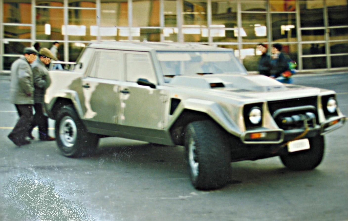 Subject: Lamborghini LM 002 Author: Luc106 Date: february 1994 City/country: Genoa (Italy) Event: Autostory I release all rights in the public domain.